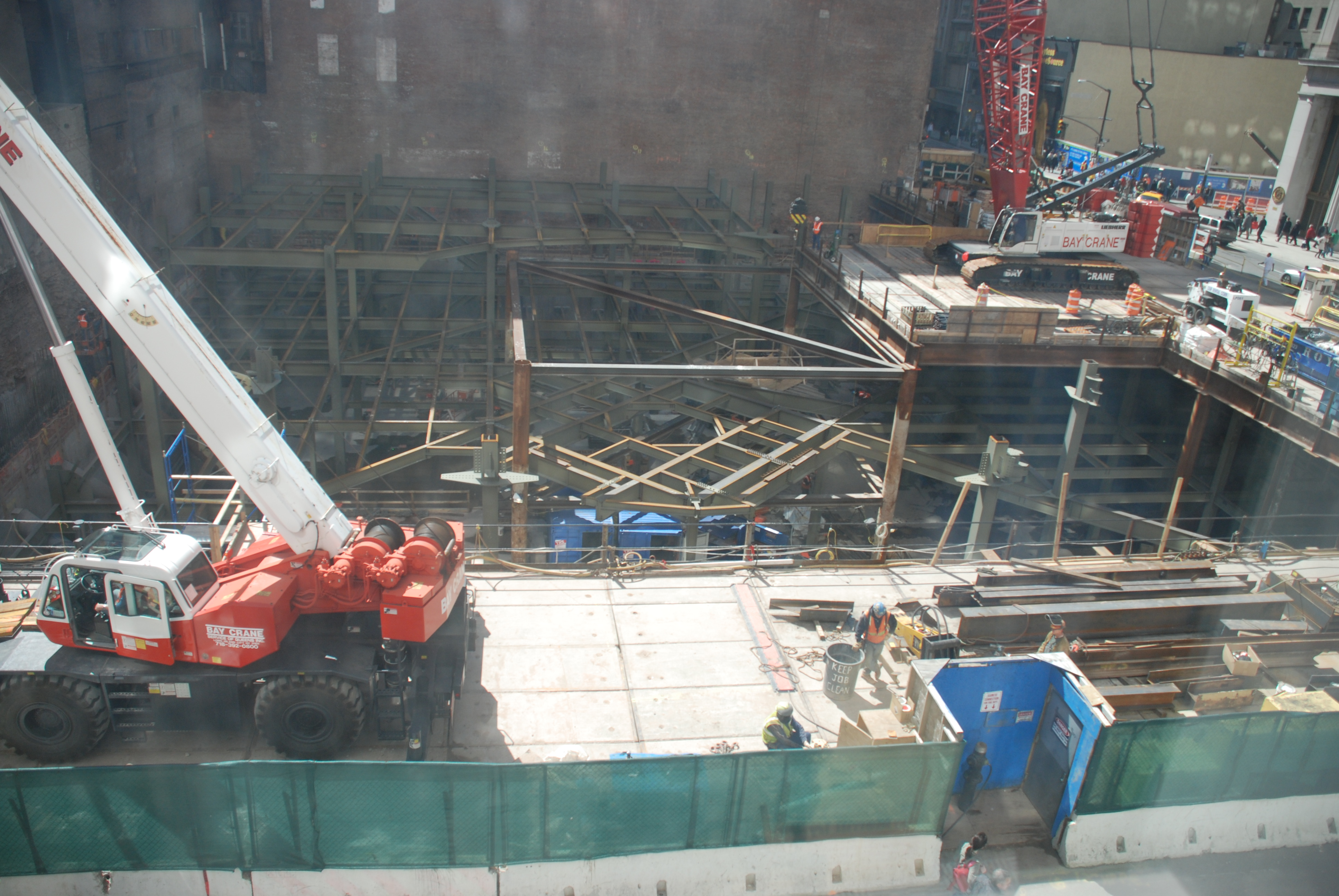 Fulton Street Transit Center taken from an office building on the north side of Fulton Street. This is my last picture in this series as my office is moving from 222 Broadway.